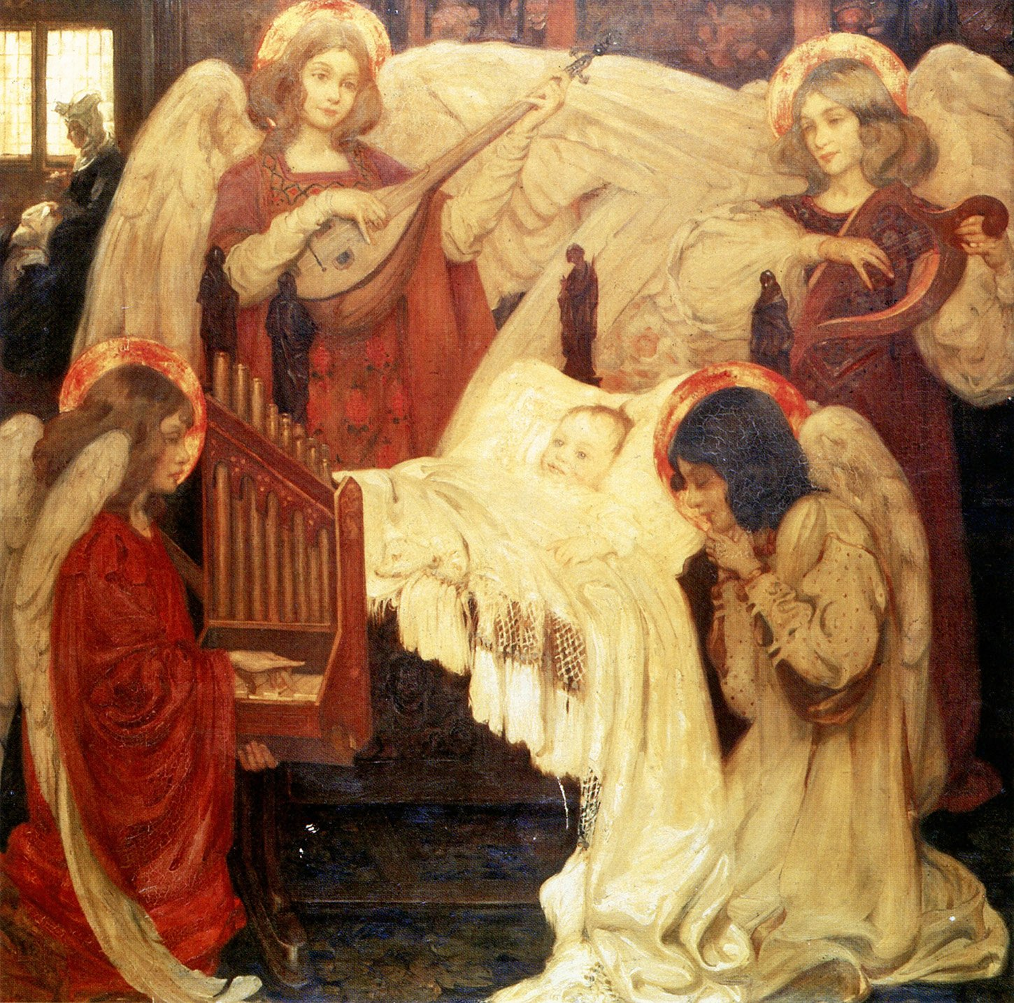 title: Four corners to my bed Four angels round my head Matthew, Mark, Luke and John Bless the bed that I lie on.